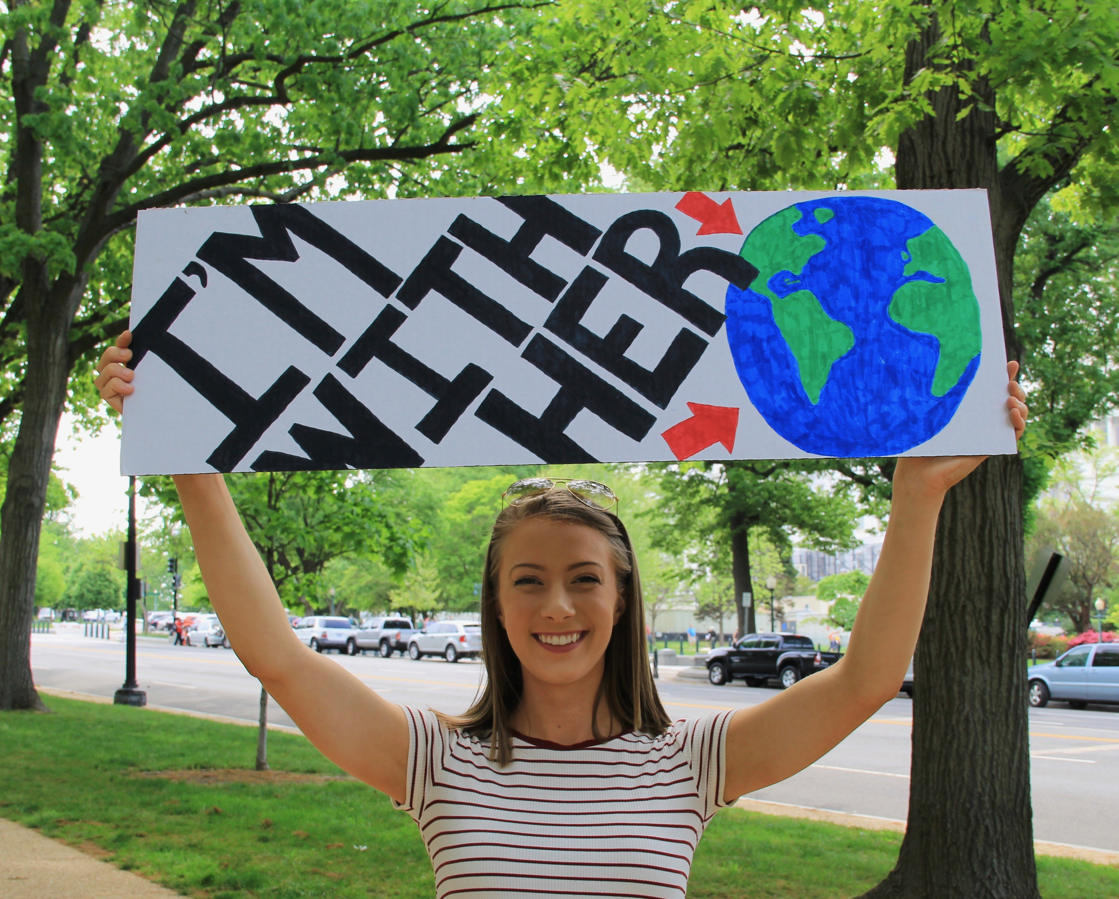 Citizen demonstrating with a placard "I'm with her", at the People's Climate March 2017 (29 April 2017).